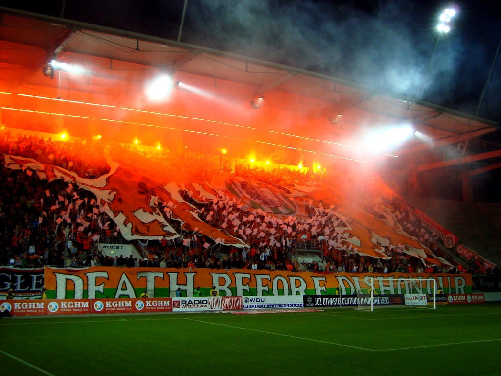 Dialog Arena. Zagłębie Lubin stadium in Lubin, Poland.